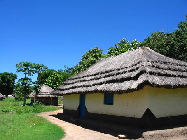 The thatched roof houses of the Pojulu people — in Lainya County of Central Equatoria state. In the central Equatoria region of South Sudan.